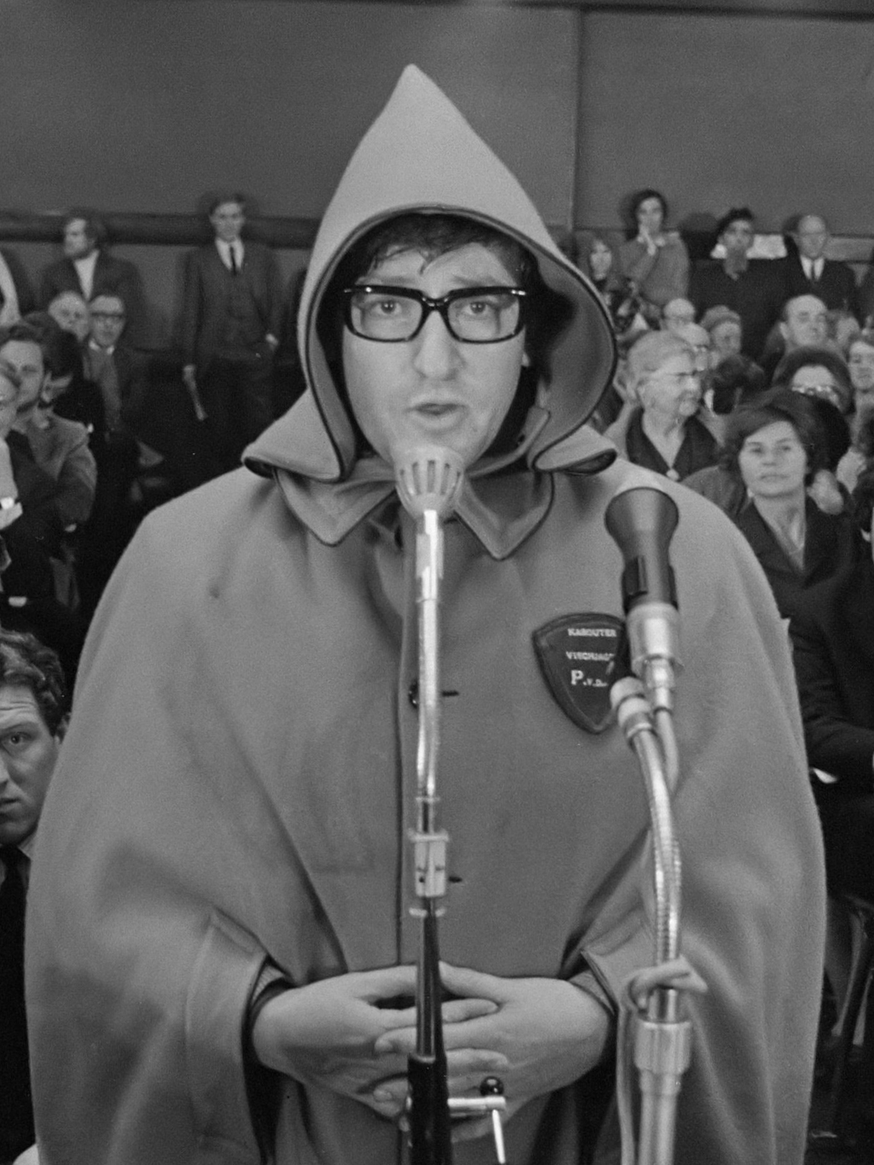 Discussie in Krasnapolsky tussen "De Notenkrakers" en Concertgebouworkest. Een "kabouter" (Julius Vischjager) tijdens discussie 22 april 1970